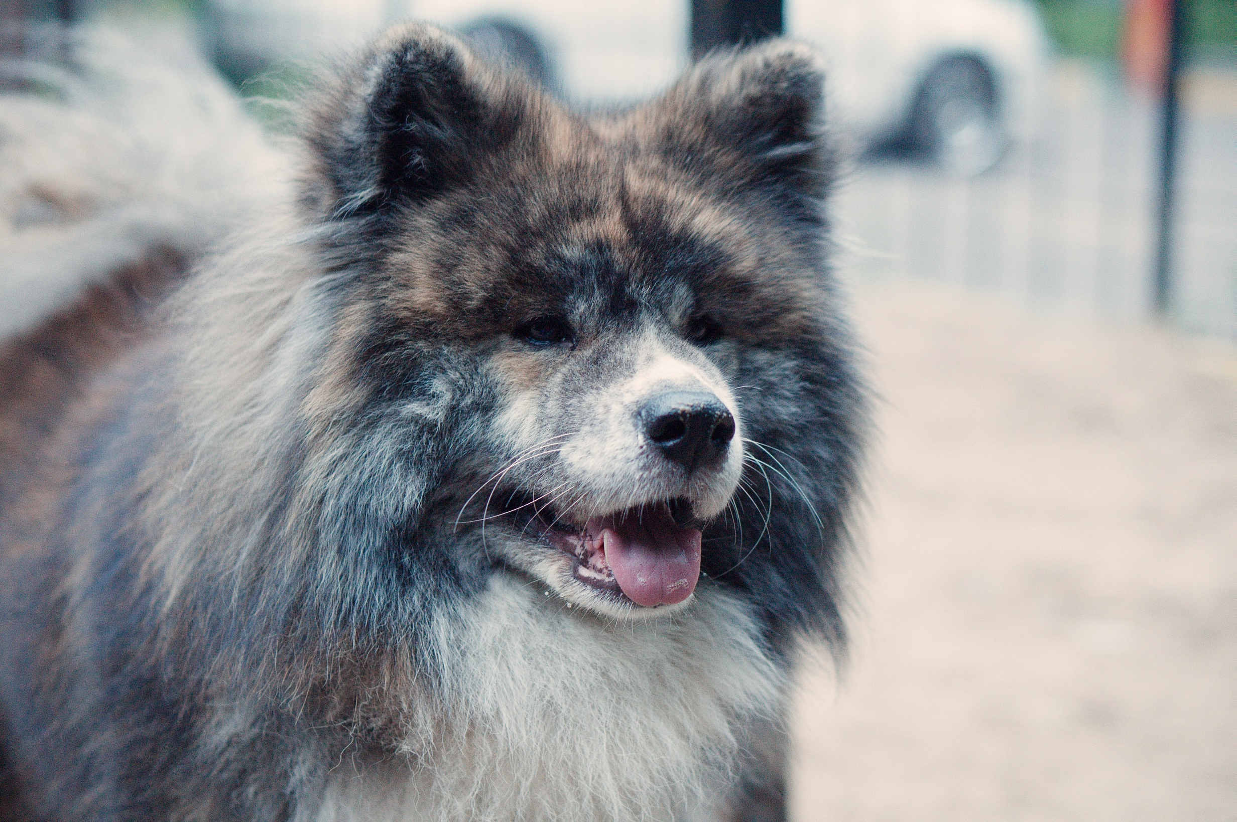 Long Coat Japanese Akita-inu